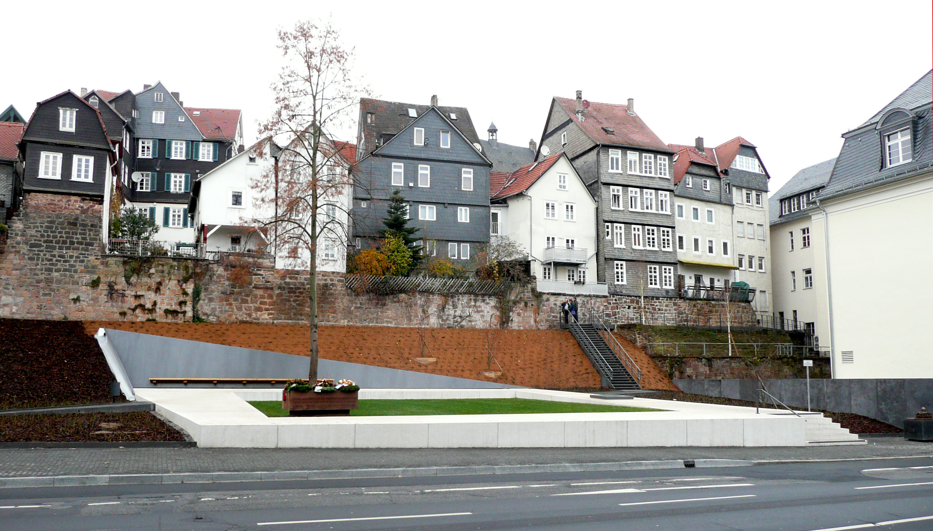 Memorial for the former Synagogue (1897-1938) in the Universitätsstraße in Marburg shortly after its inauguration in November 2012. Seen from South. In the background there are houses of the Oberstadt built on the former town wall.